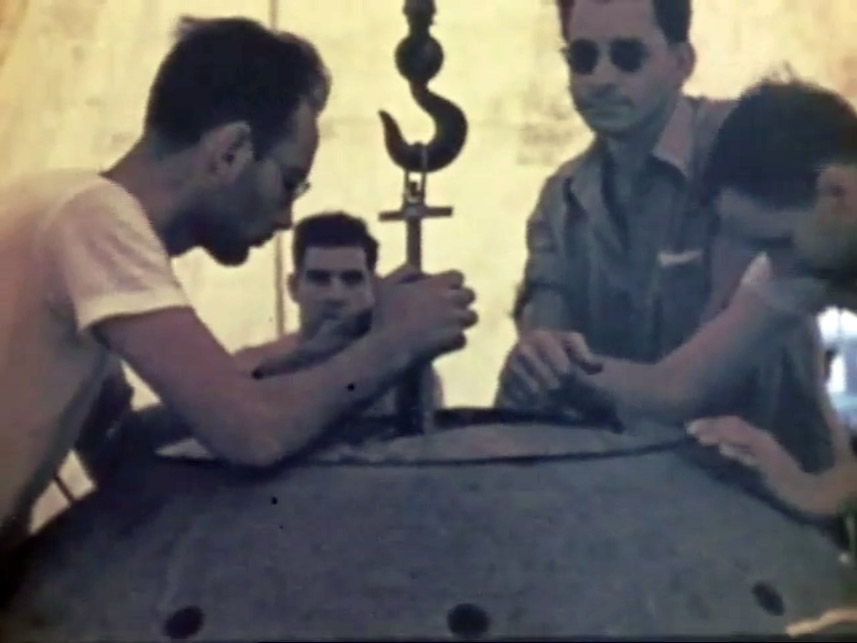 The two physicist Louis Slotin & Harry K. Daghlian Jr. during the Trinity Test